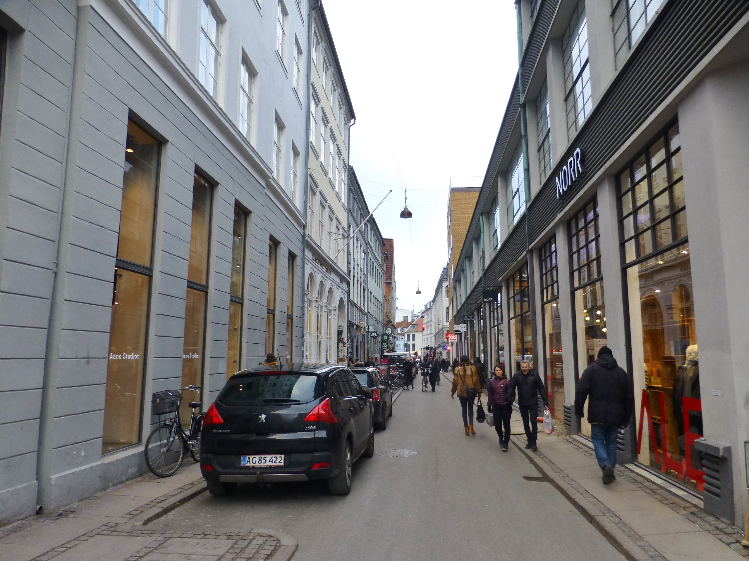 The street Sværtegade in Indre By in Copenhagen.